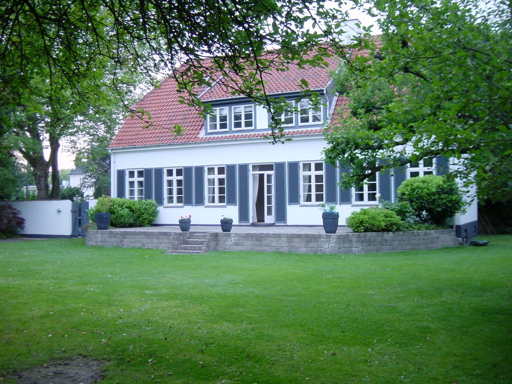 Picture of a Danish villa, Eggersvej 22, 2900 Hellerup, Denmark, designed by the architects Arthur Wittmaack and Vilhelm Hvalsøe in 1919. The photograph is from app. 2005 and shows the south side of the building.